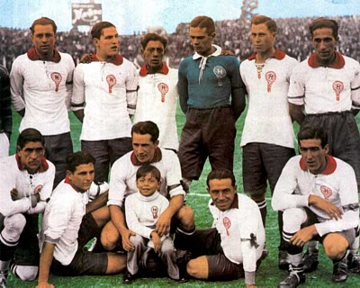 The CA Huracán of Buenos Aires team in 1928. That squad won the last title during the amateurism, and Huracán would not win another championship until 1973.